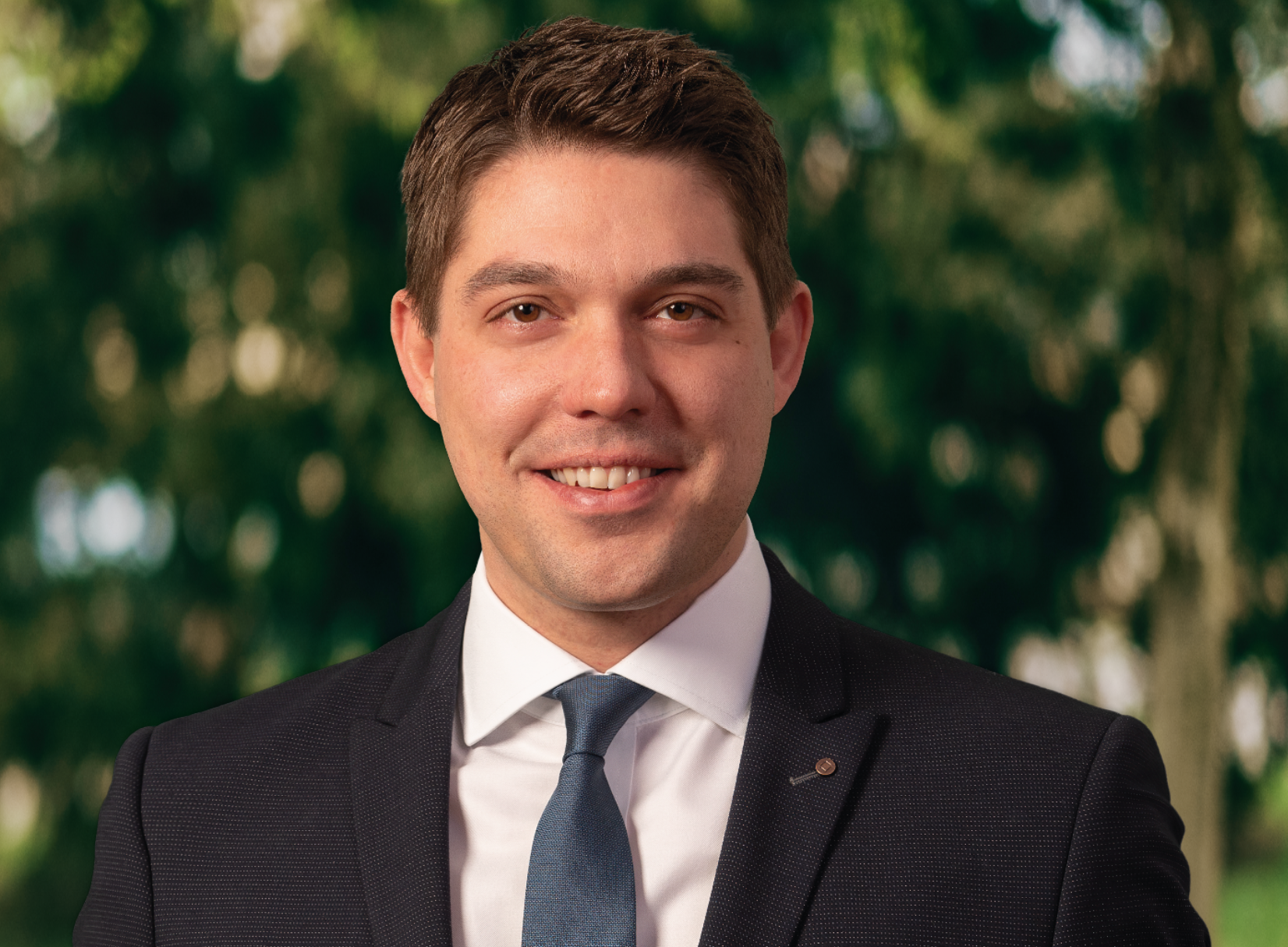 Landrat Siegfried Walch, 2020